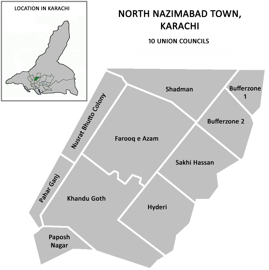 Union councils of North Nazimabad Town, Karachi.